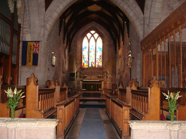 St Edmund's church Crickhowell - interior This is the only church dedicated to the East Anglian saint to be found in Wales.